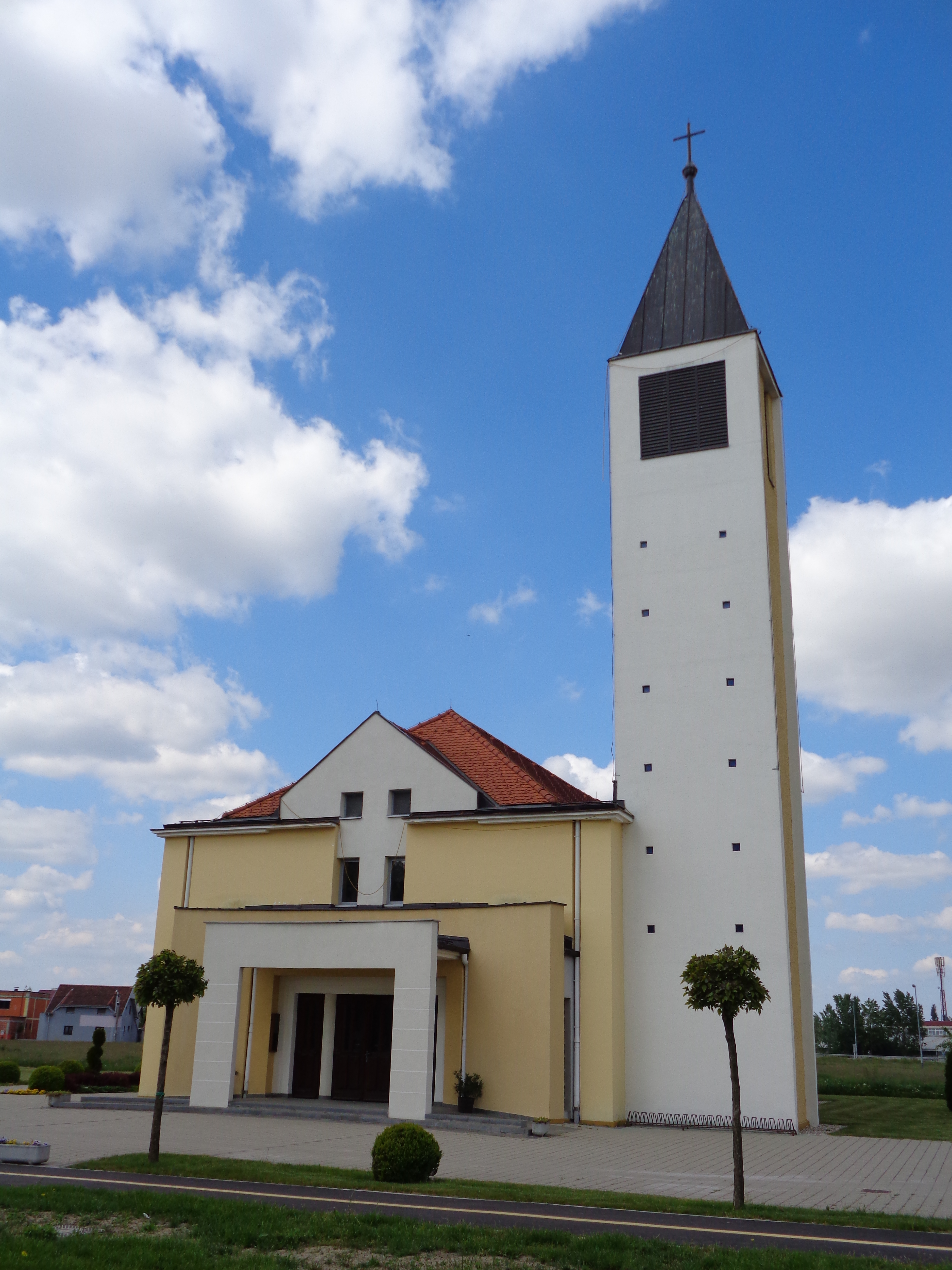 Virgin Mary the Queen church, Savska Ves, Croatia - southeast view